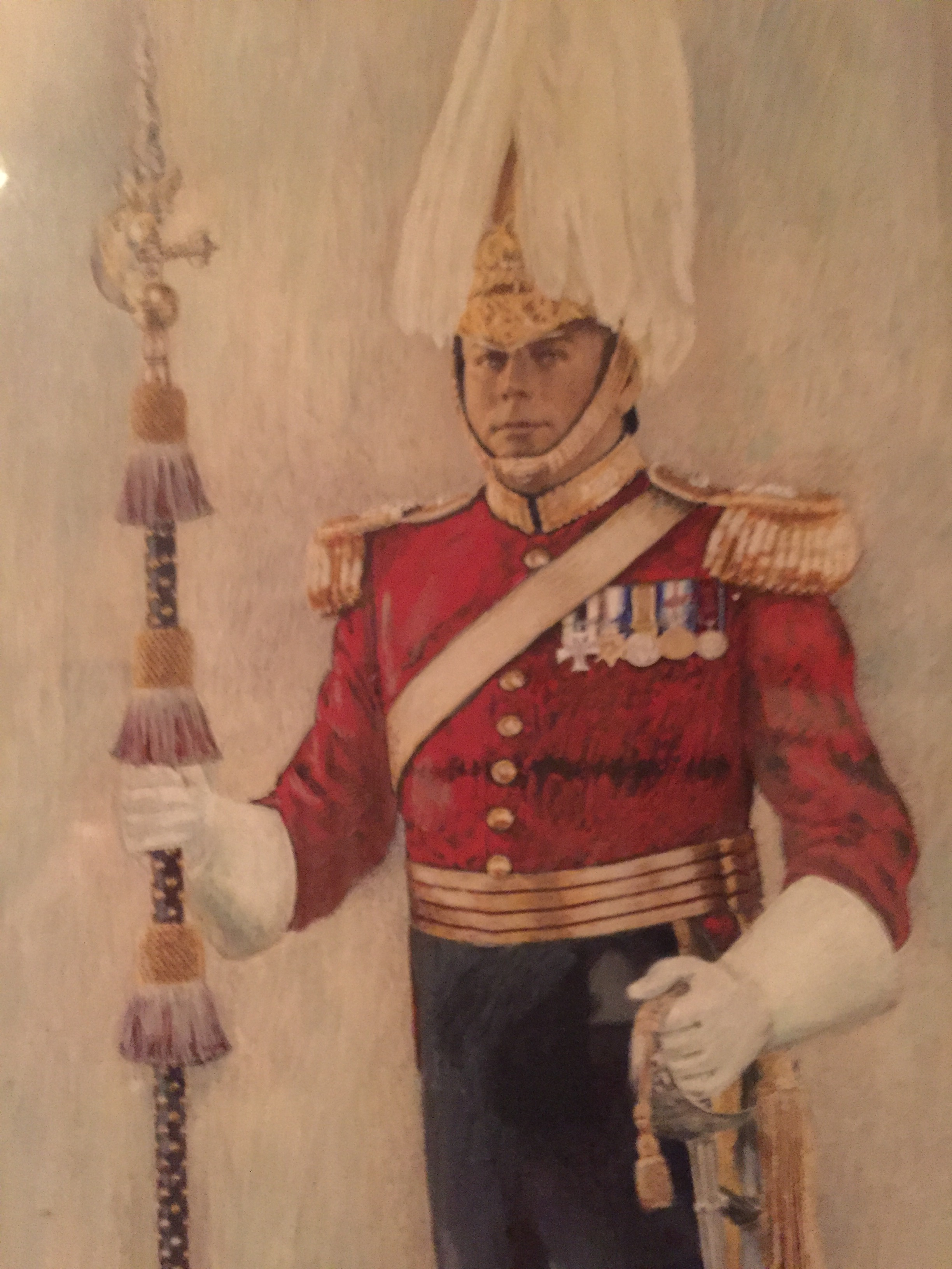 Astell